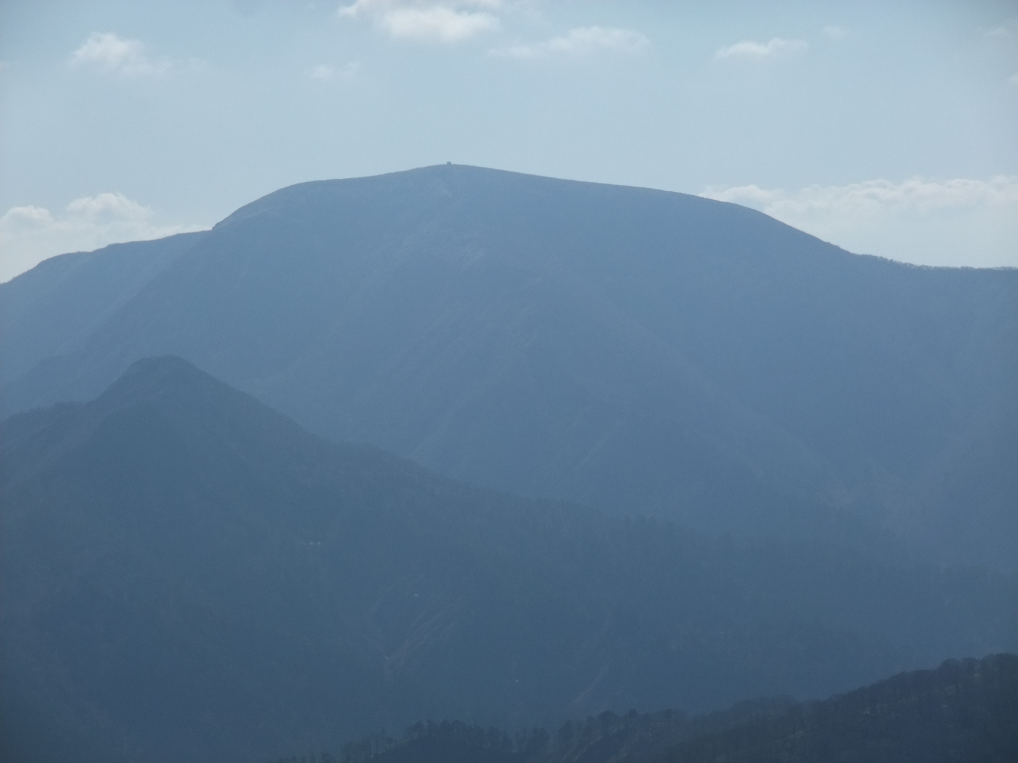 Mount Torage (Torageyama) seen from the NbW, in Akita, Japan. Taken from Mount Takamatsu.